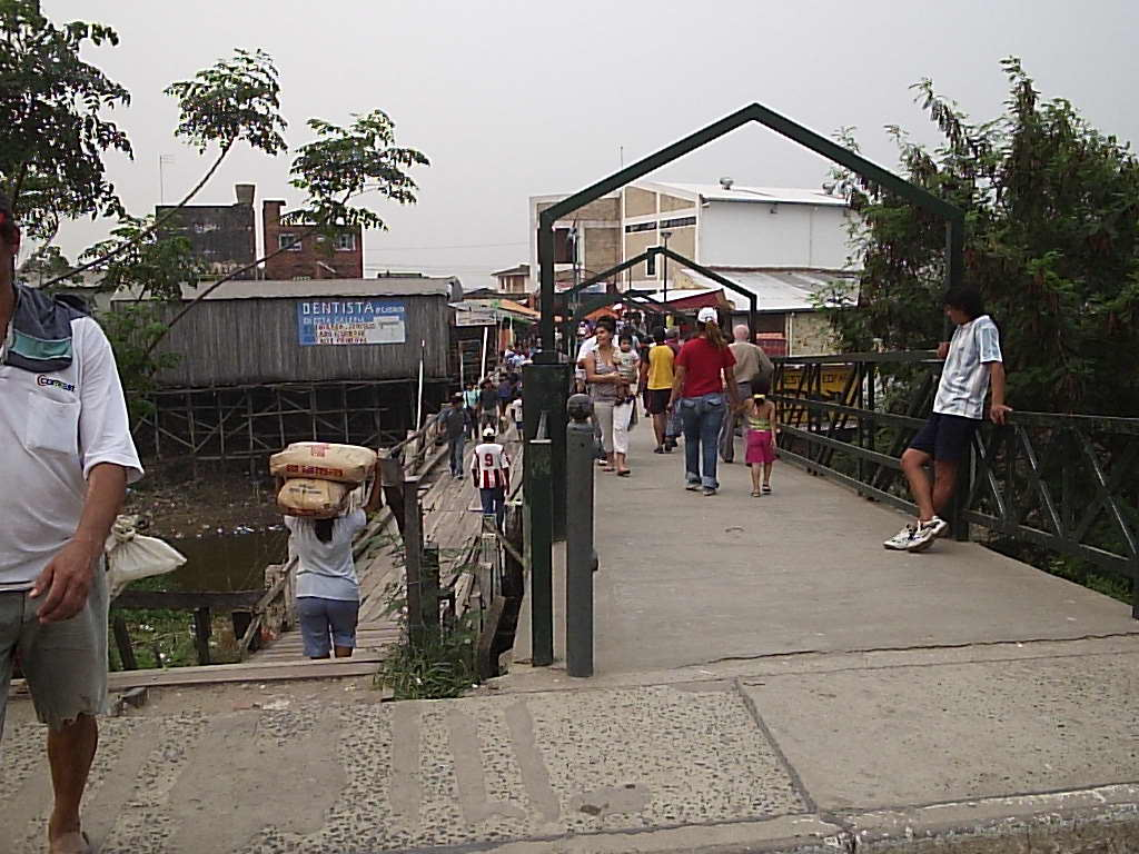 Pasarela que une las Ciudades de Clorinda (Argentina) con Puerto Elsa (Paraguay). Bridge that unites the Cities of Clorinda (Argentina) with Puerto Elsa (Paraguay).